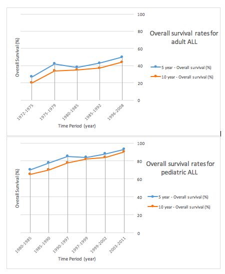 graph of survival rates at 5 years and 10 years in pediatric and adult ALL patients